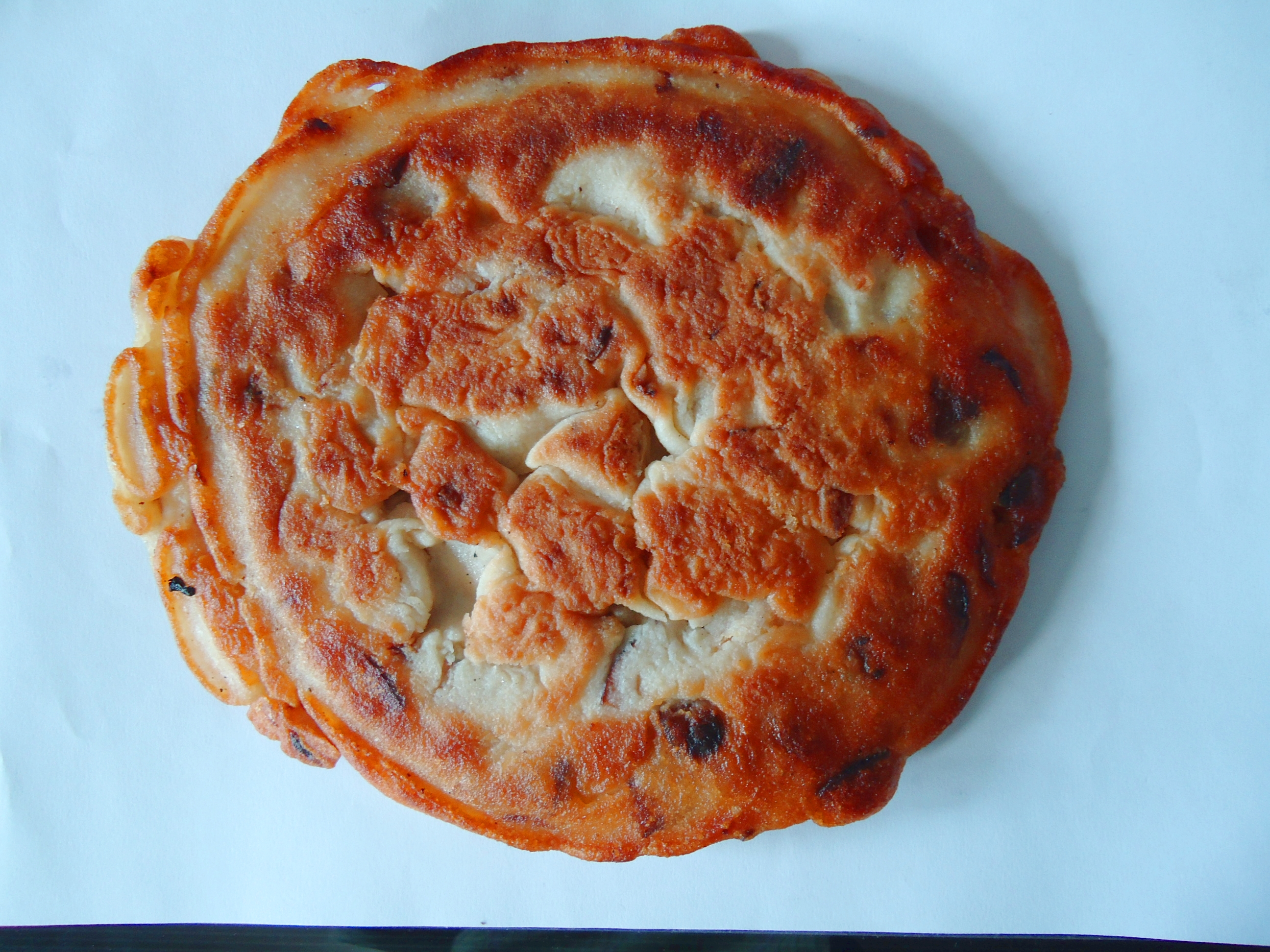 Kalthappam Back